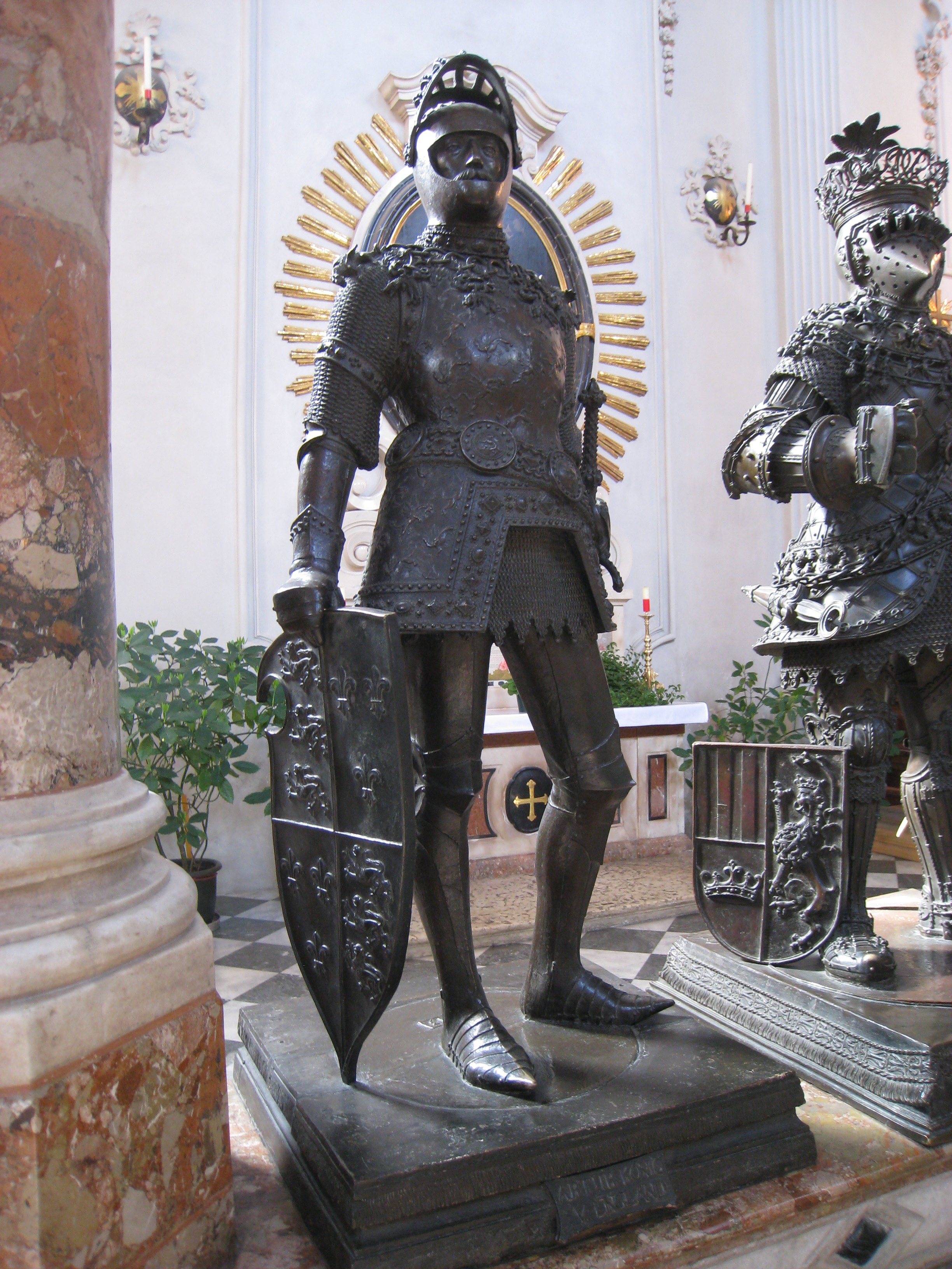 Statue of King Arthur, Hofkirche, Innsbruck, designed by Albrecht Dürer and cast by Peter Vischer the Elder, 1520s. This statue is old enough so that it is not covered by any copyright.